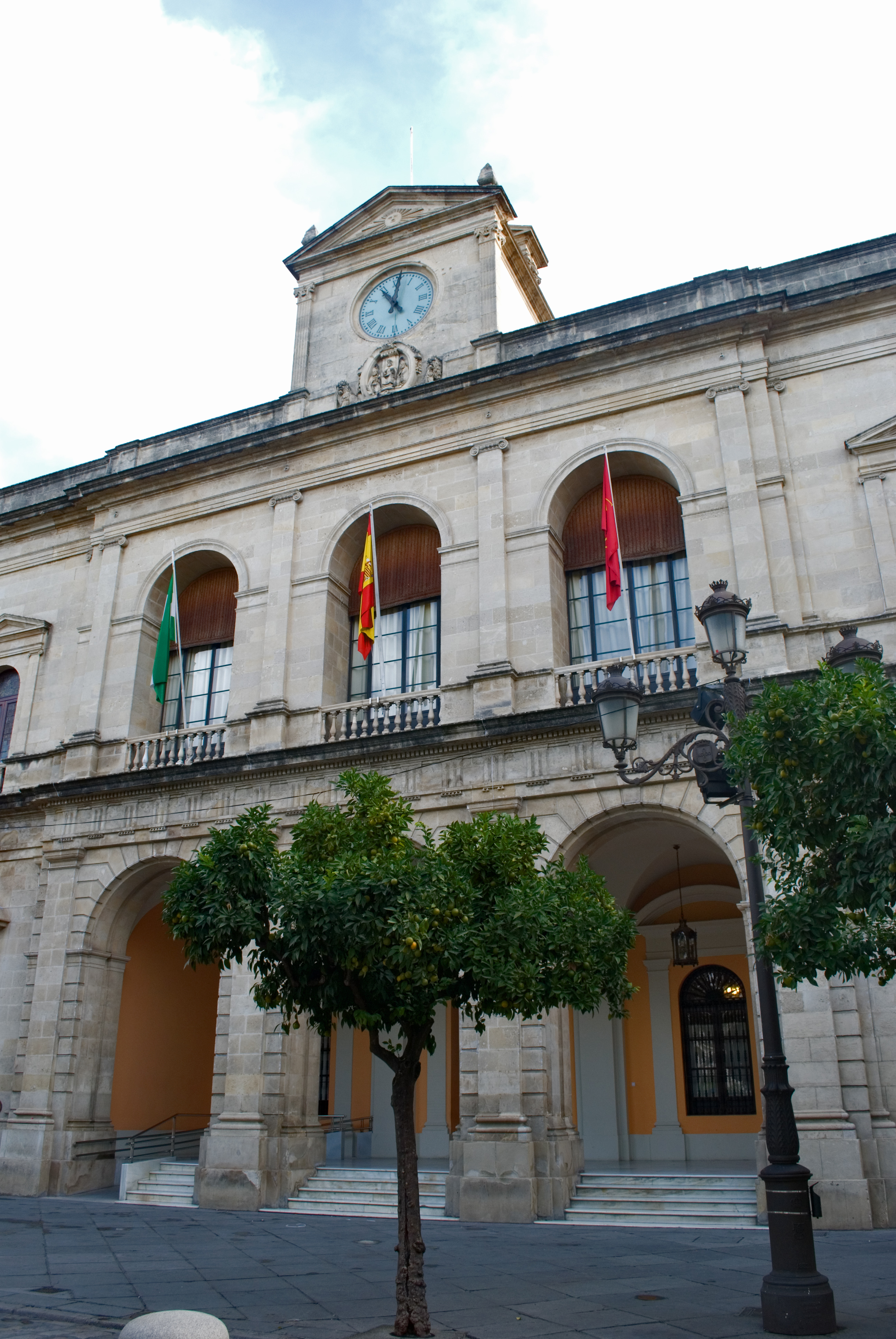 Town hall of Seville